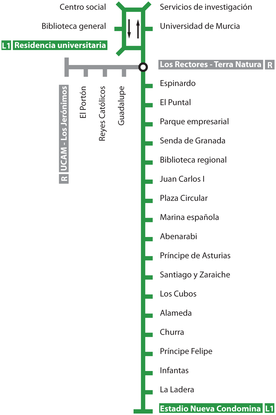 Schematic map of Murcia's Tramway